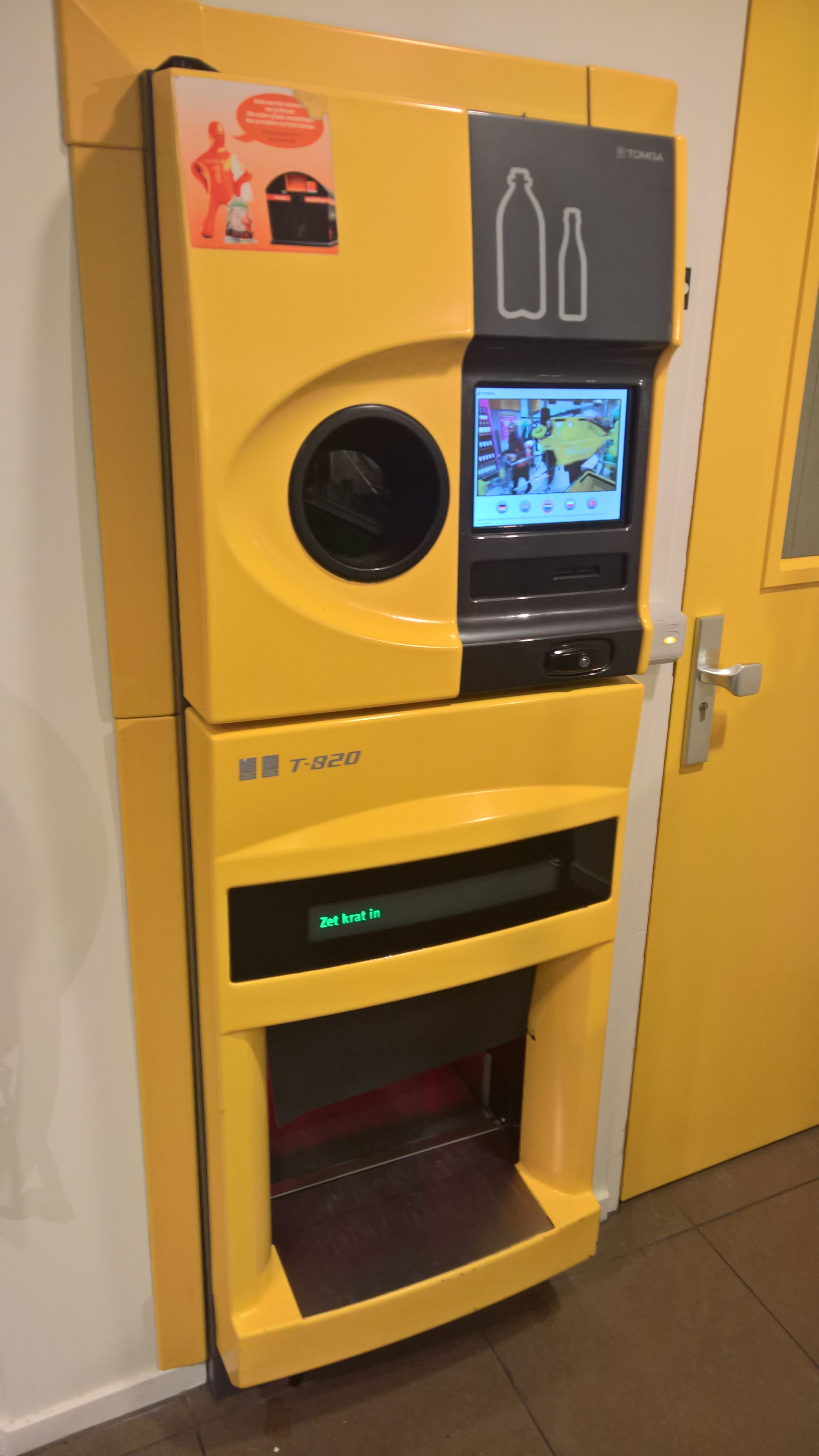 A Tomra T-820 bottle reverse vending machine inside of a supermarket 🛒 in the Groninger city 🏙 of Winschoten.